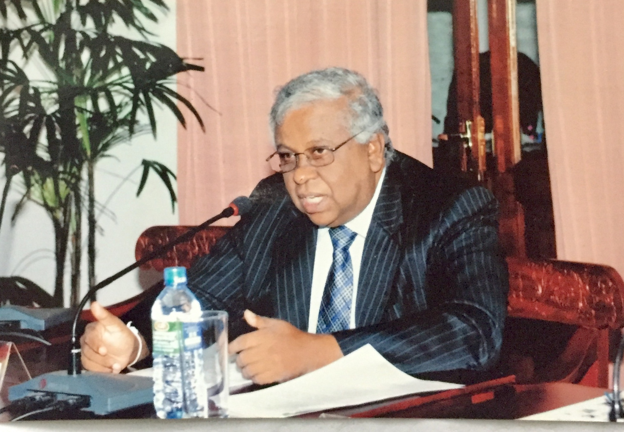 Mr Sirisena, a Sri Lankan public servant, addresses a gathering